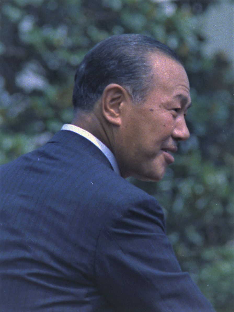 Japanese Prime Minister Kakuei Tanaka during a visit to the White House in 1973